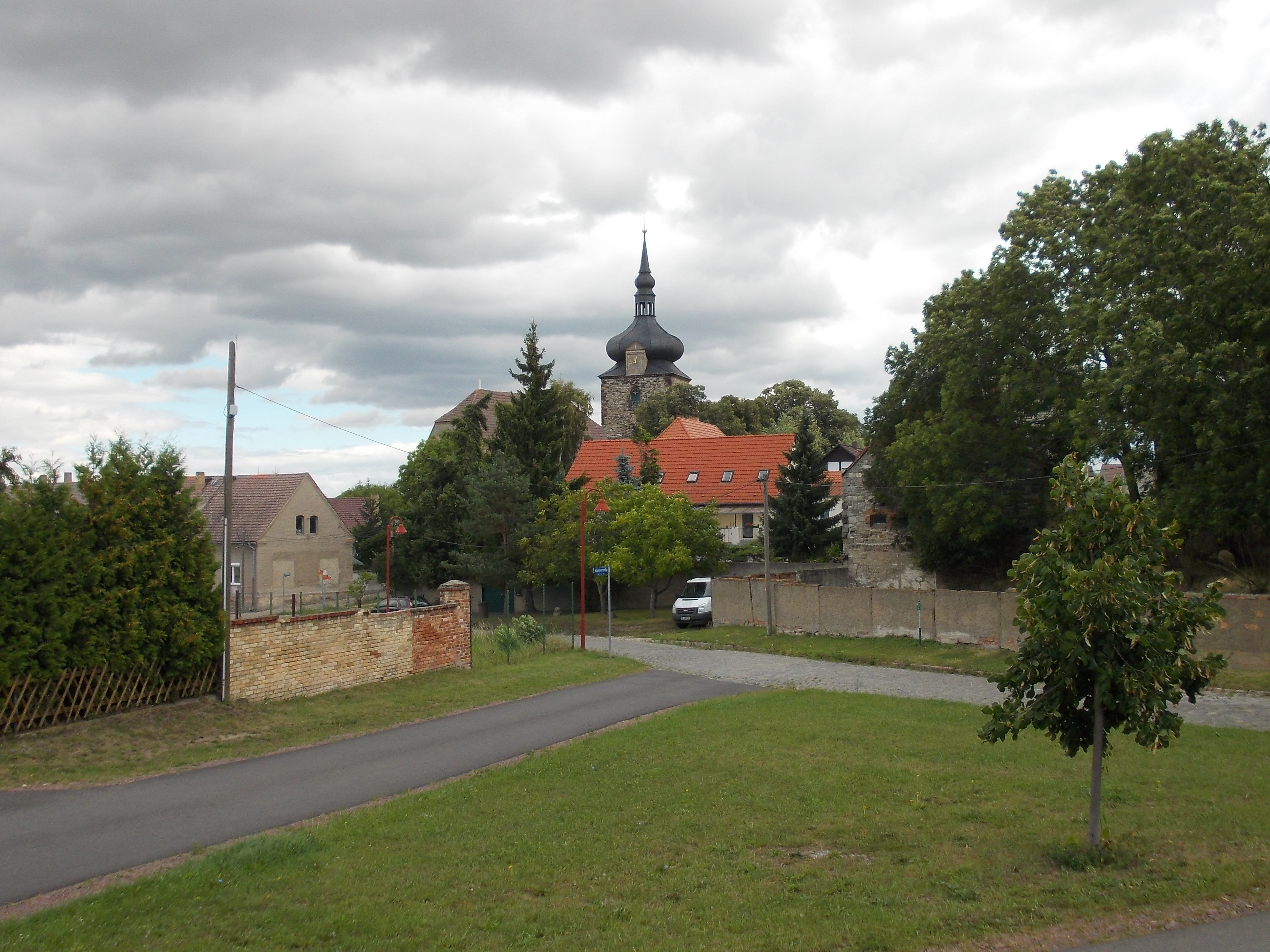 View of Niederklobikau (Bad Lauchstädt, district of Saalekreis, Saxony-Anhalt) with the church